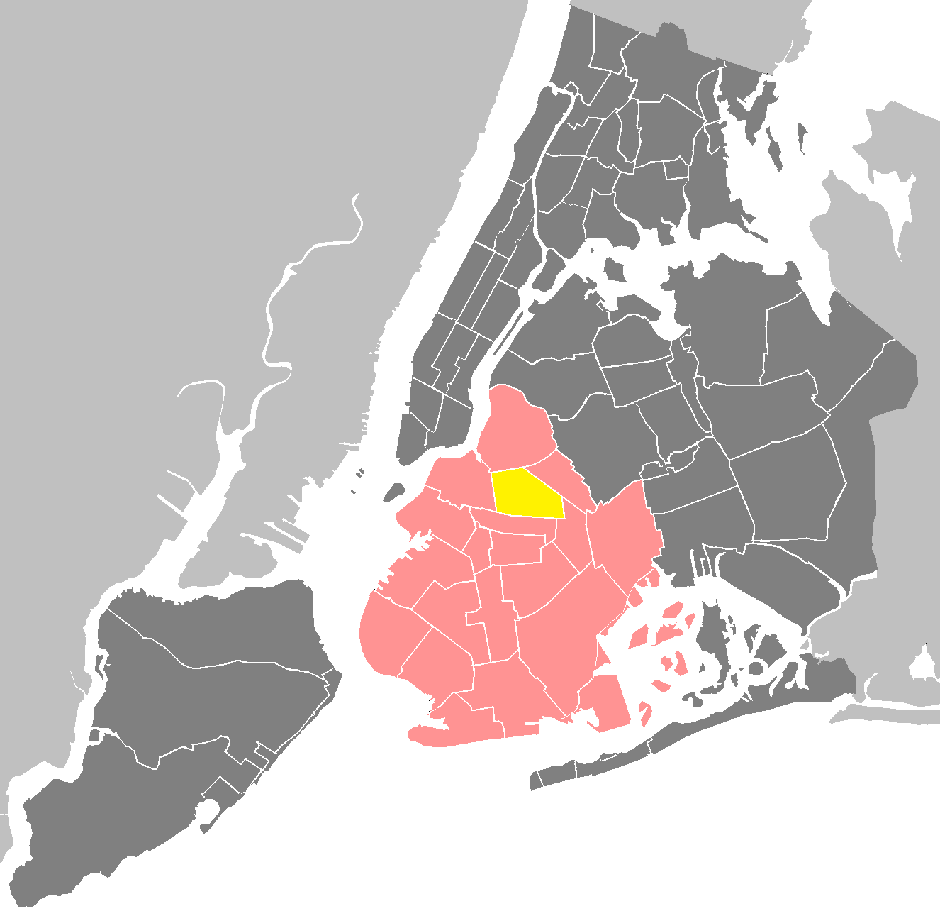 Category:Maps of New York City: New York City - Brooklyn.PNG